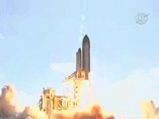 Launch of STS-124